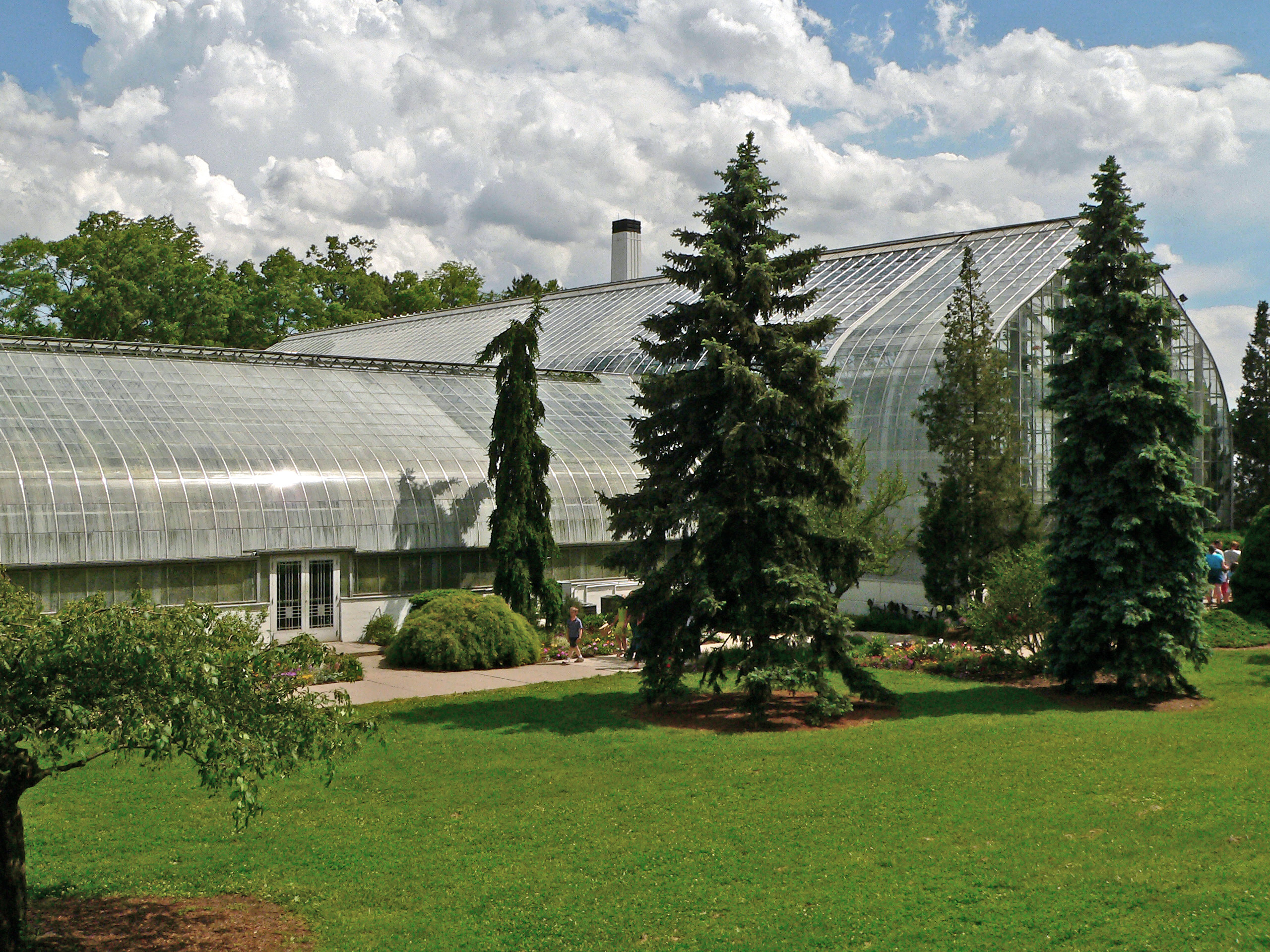 Krohn Conservatory in Cincinnati, OH. Photo by Greg Hume